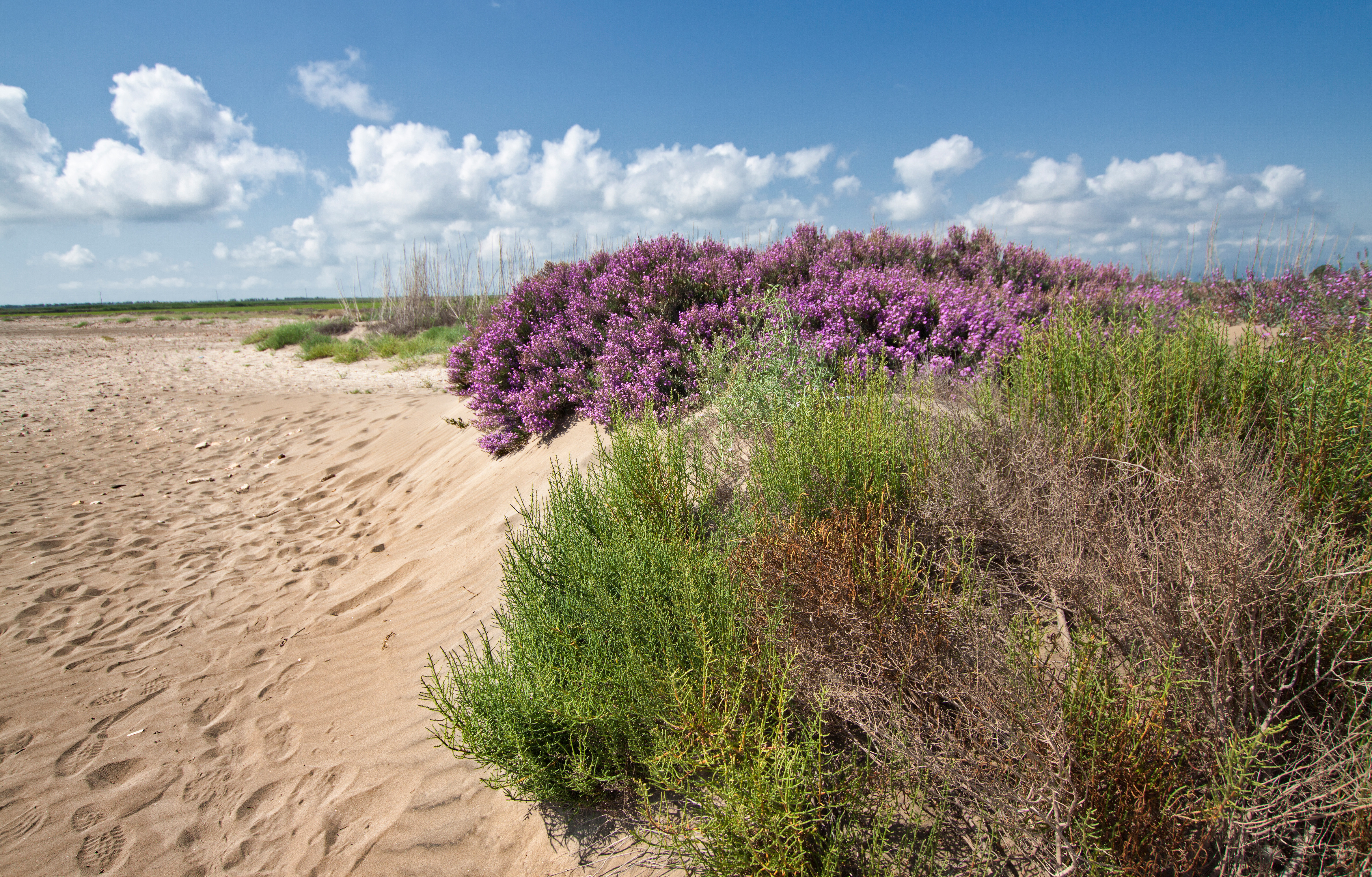 This is a a photo of a natural area in Catalonia, Spain, with id: ES510074